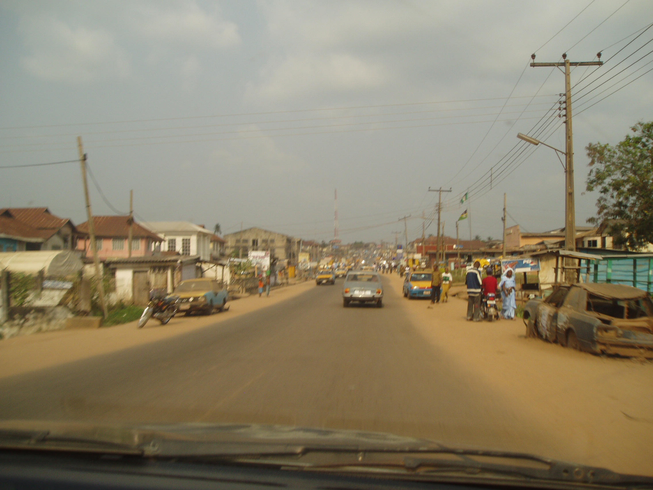 Yaba Street in Ondo City, Ondo State, Nigeria.